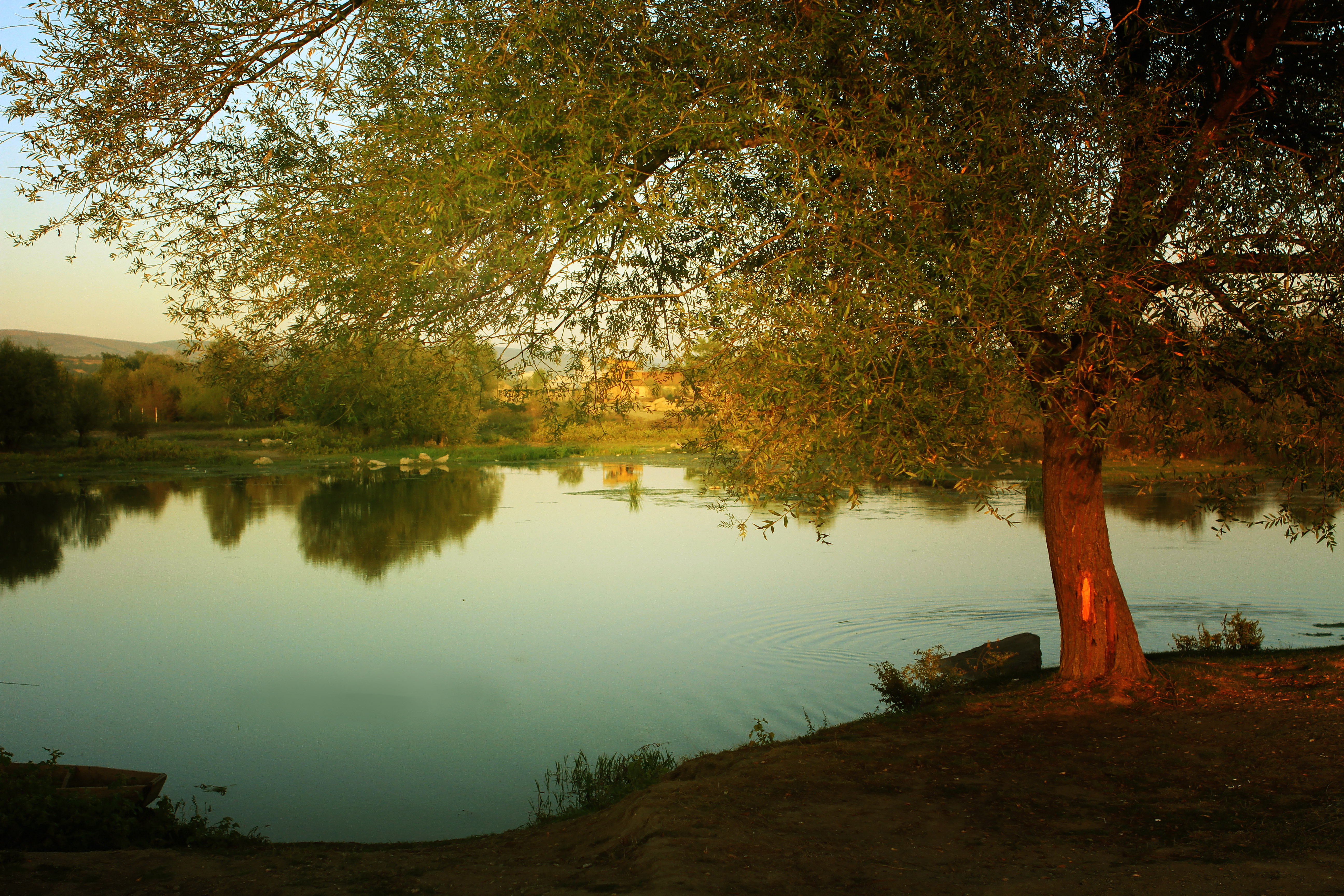 Bukurite e lumit Drini Bardhe